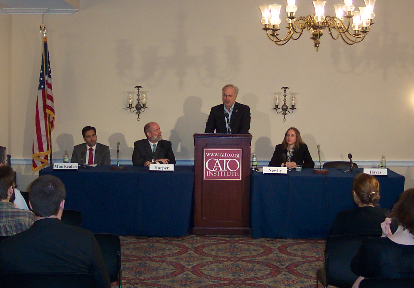 On August 18, 2014, Jim Harper, (User:JimHarperDC), Senior Fellow, Cato Institute; Michelle Newby, (User:HistoricMN44), Legislative Researcher/Writer, Cato Institute; and Jim Hayes, (User:Slowking4), Member, Wikimedia DC Public Policy Committee; moderated by John Maniscalco, Director, Congressional Affairs, Cato Institute; held a panel discussion of congressional Wikipedia editing and the sea change to government transparency it might produce on Capital Hill at the Rayburn House Office Building.